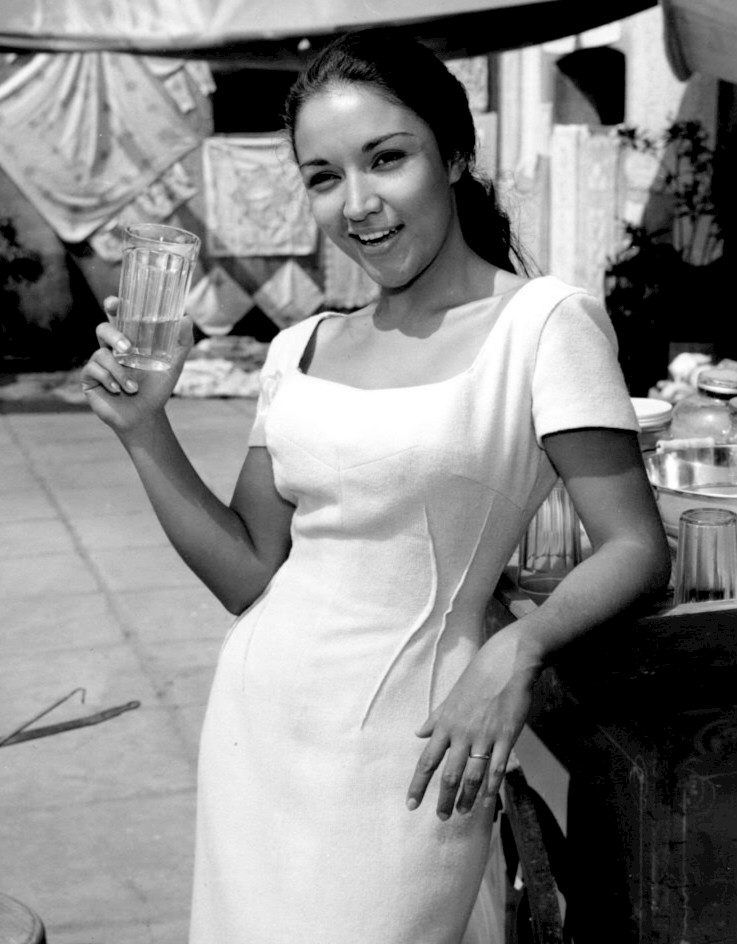 Photo of actress Míriam Colón from an episode of Alfred Hitchcock Presents. The episode is "Strange Miracle".